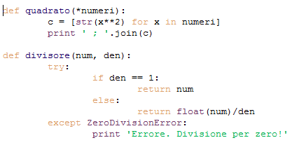 Example of Python Language